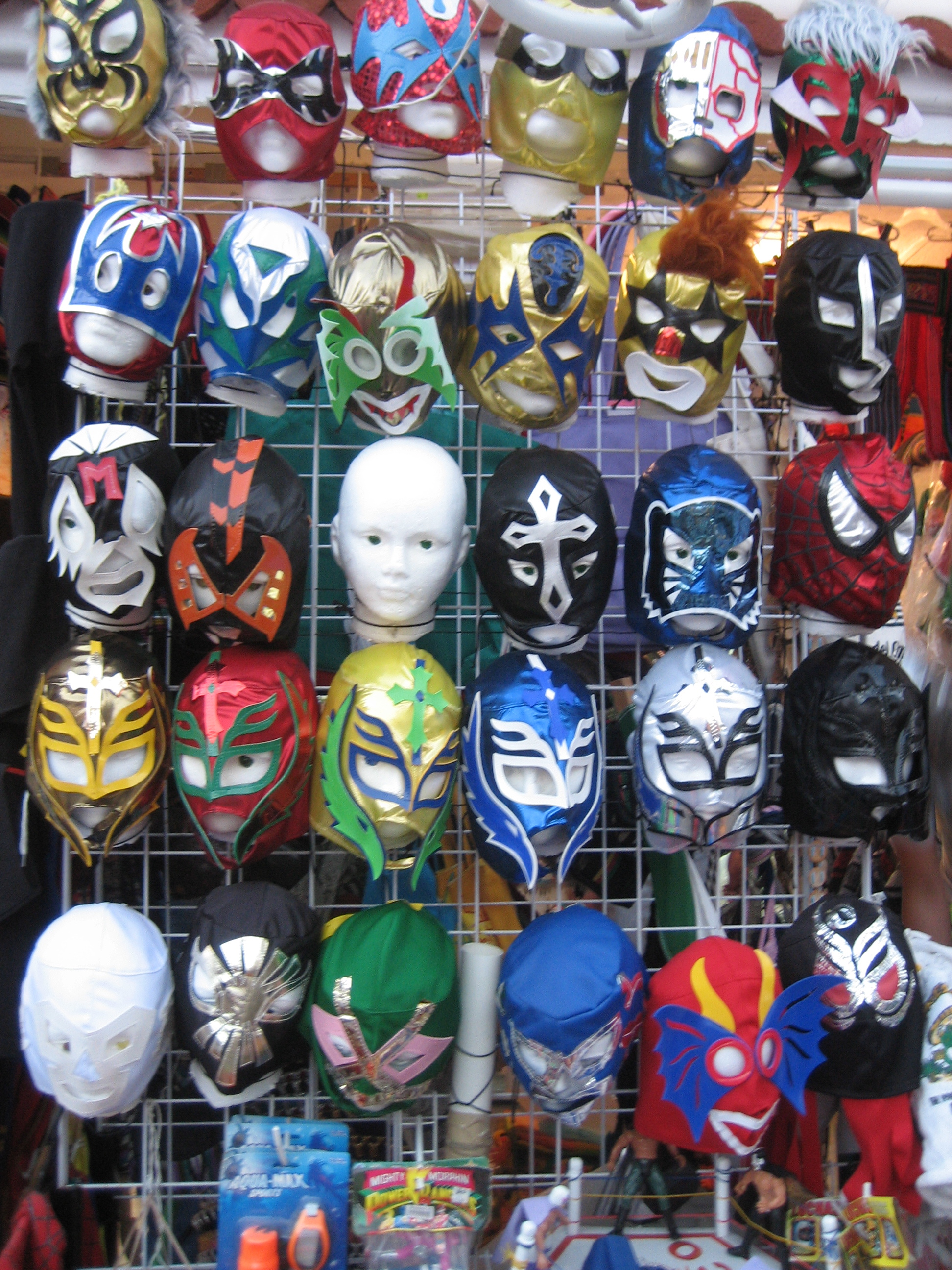 Luchadore masks on display at a shop in Playa del Carmen, Mexico